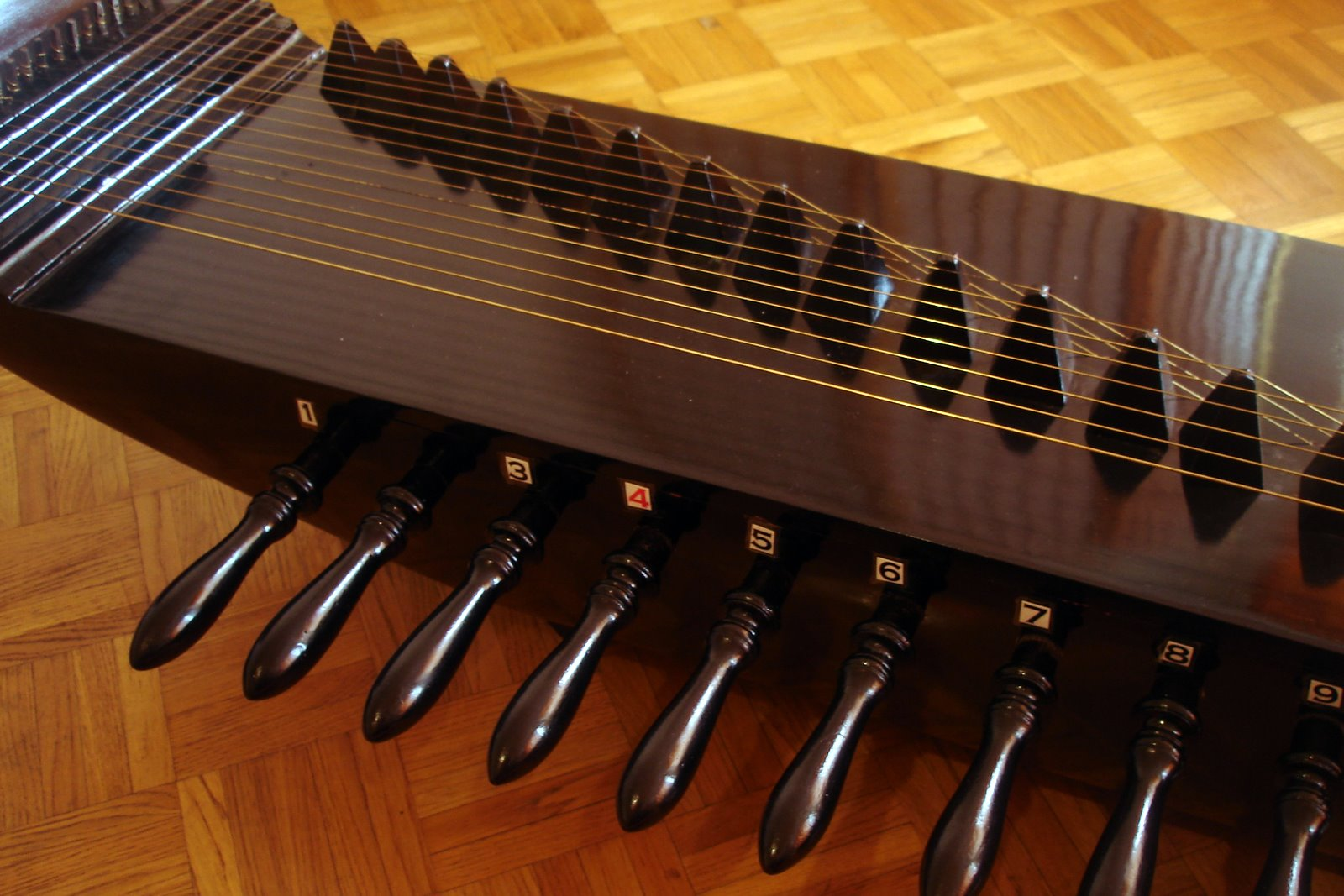 Details of tuner elements of a Sundanese kacapi.